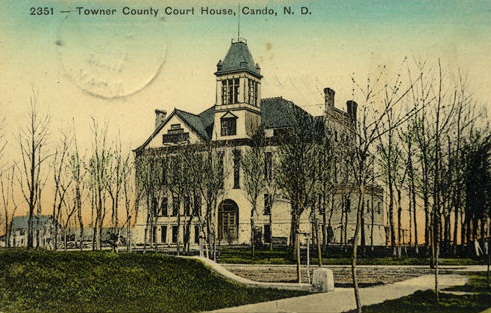 Postcard of Towner County Courthouse, Cando, North Dakota. Image is in public domain as published before 1923. Post mark information included in source description indicates post mark of July 1, 1912